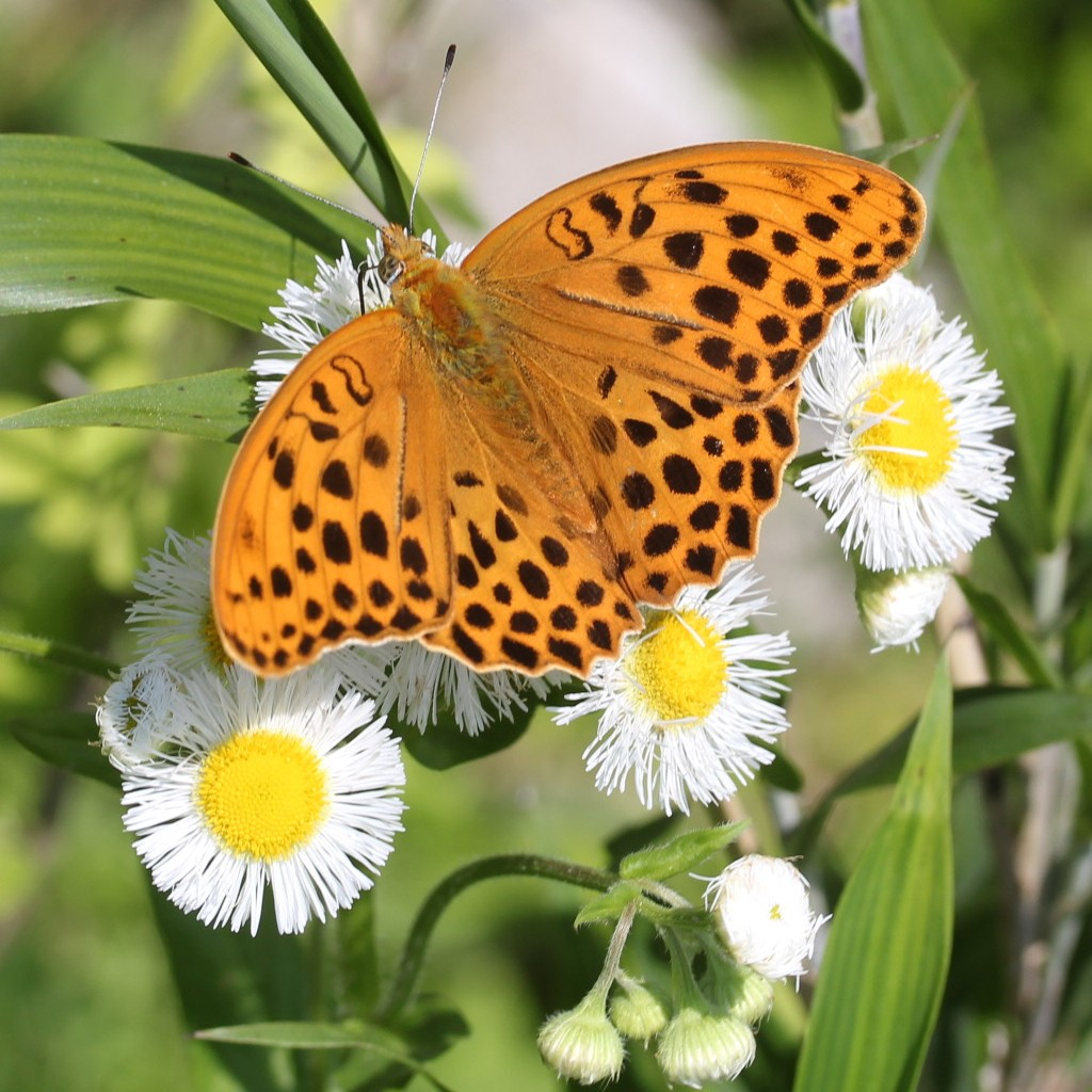 Male of Argynnis anadyomene (Nephargynnis anadyomene) feeding nectar of Erigeron philadelphicus in Mount Ibuki, Maibara, Shiga prefecture, Japan.